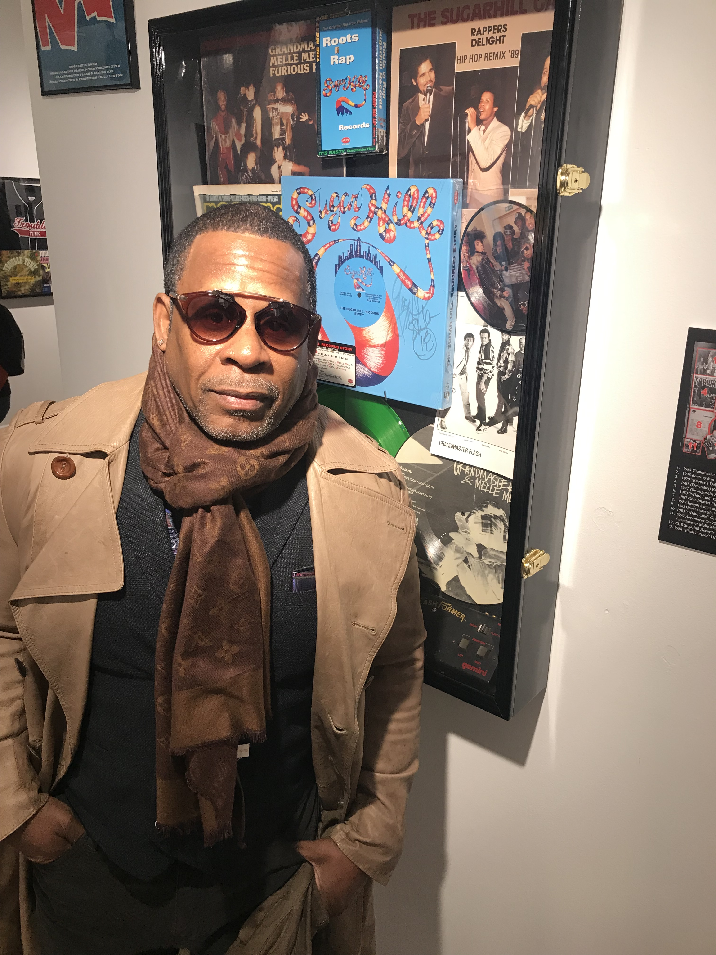 The "Unforgettable" Master Gee - Guy O'Brien